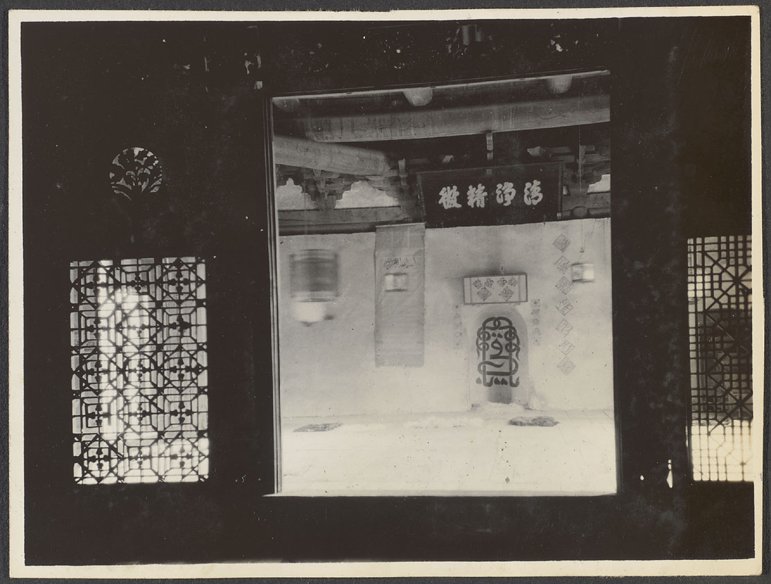 Salar mosque in Kehtsïkung. Mihrabs and Qibla are visible. "We saw more than 300 worship[p]ing here." Prayer hall, Gai zi Mosque, Jishi (near), Qinghai Sheng, China Xunhua Salarzu Zizhixian, Qinghai Sheng, China